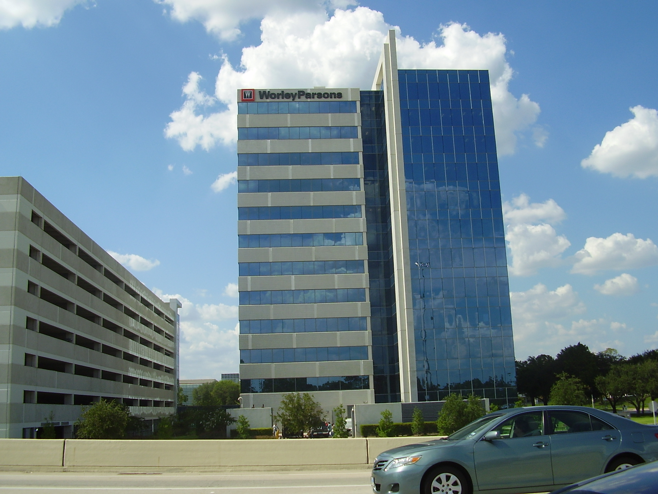 WorleyParsons offices, Energy Corridor